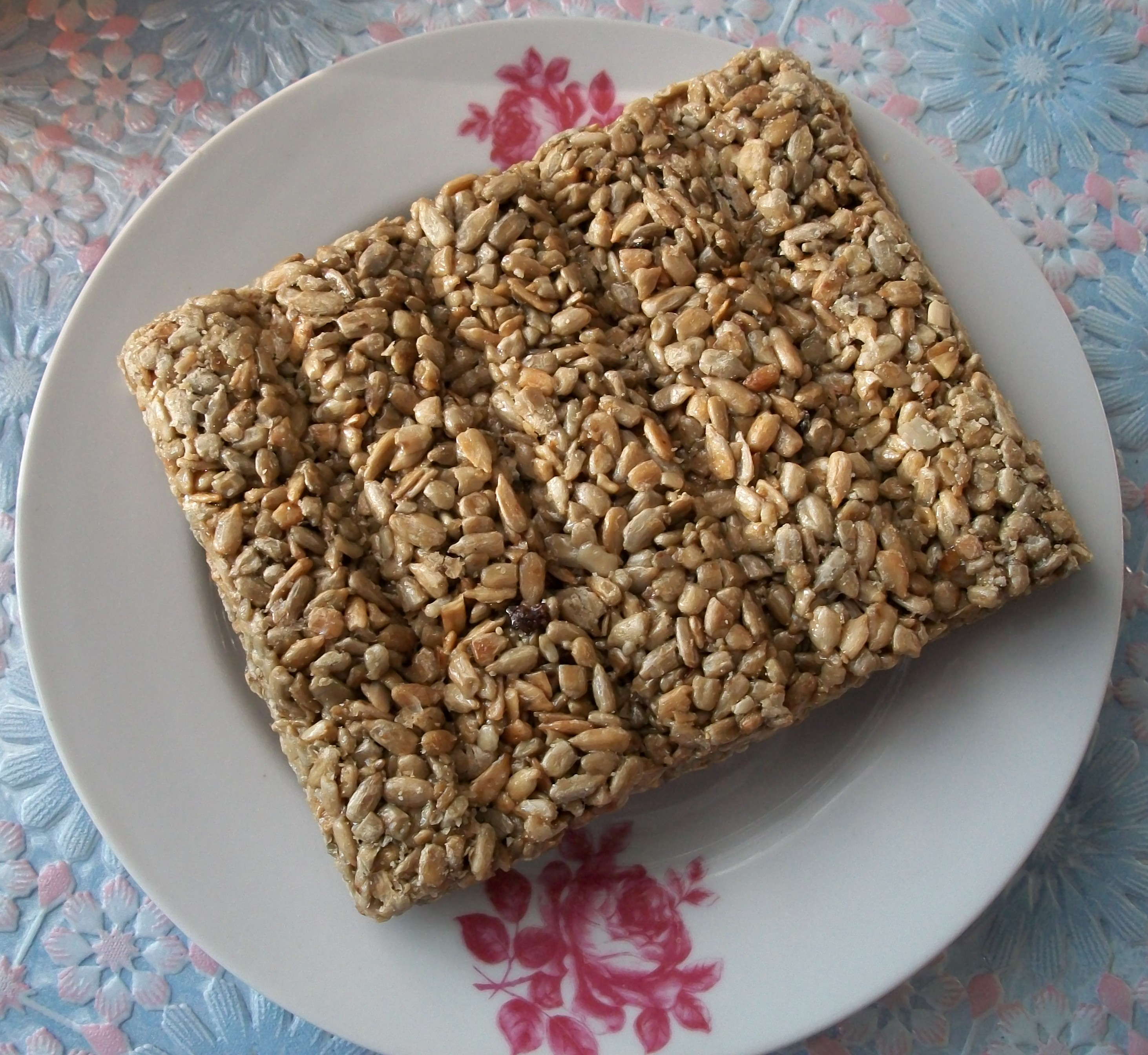 Gozinaki made from sunflower seeds